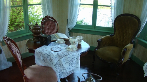 Theehouse at Bredevoort (Netherlands)